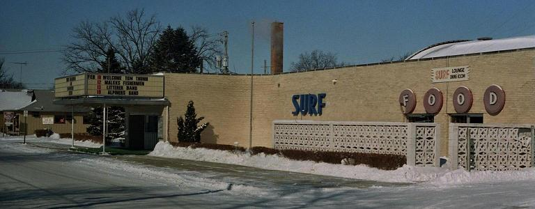 Surf Ballroom as it looked in February 1988.